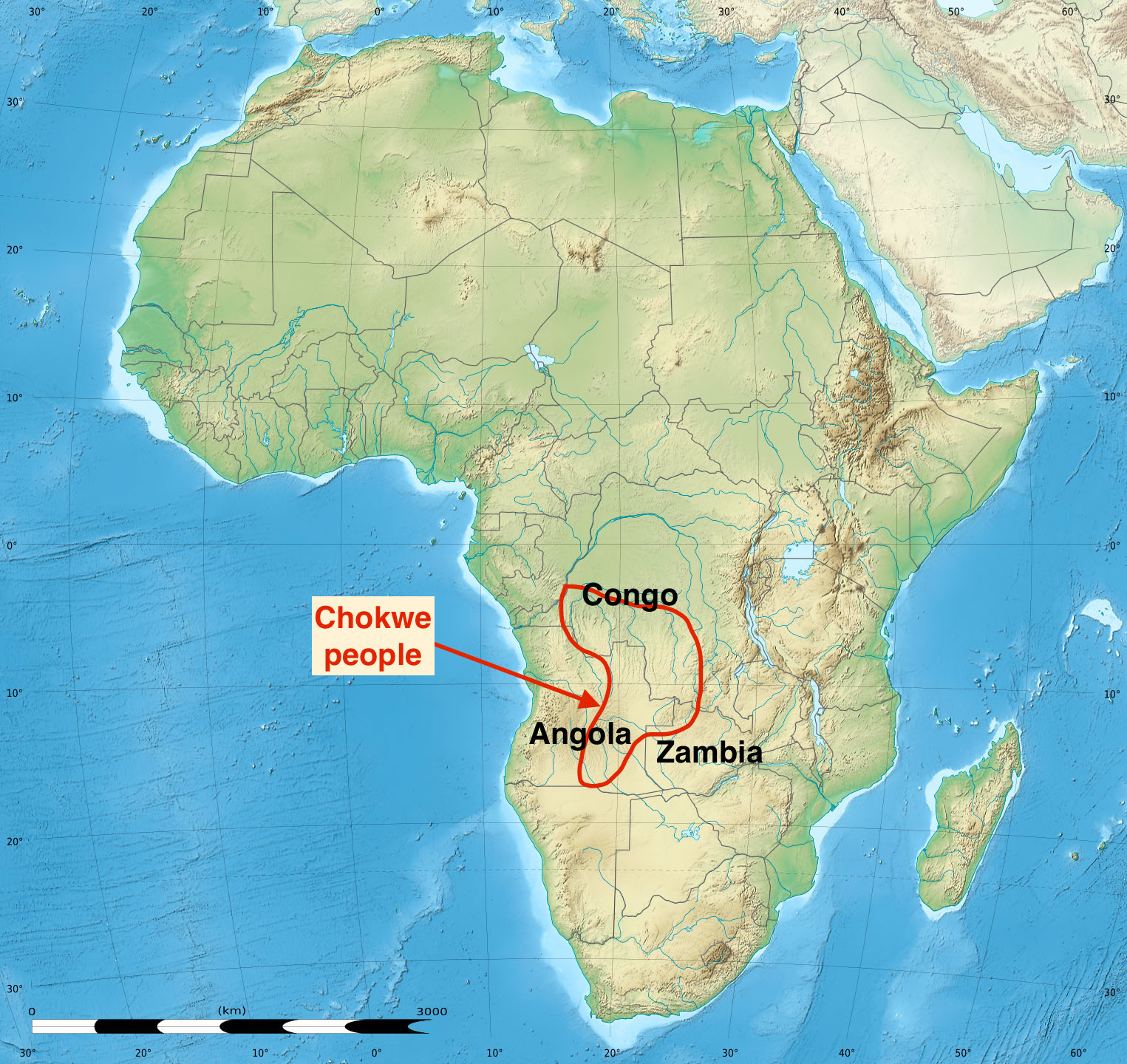 Approximate geographical distribution of Chokwe people ethnic group in Africa. A derivative work on the following image available on wikimedia with creative commons license: File:Africa relief location map.jpg